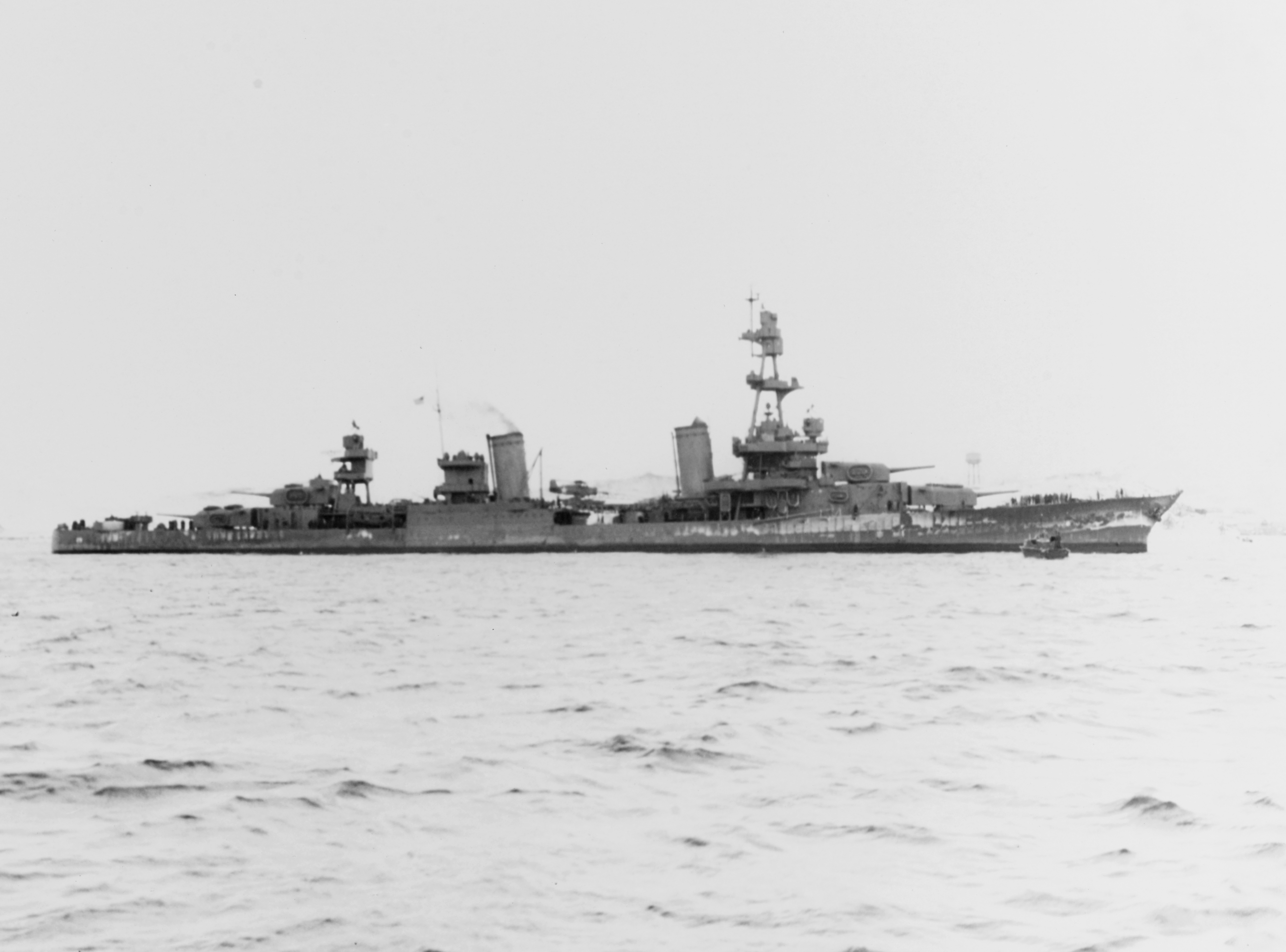 The U.S. Navy heavy cruiser USS Salt Lake City (CA-25) at Dutch Harbor, Alaska (USA), on 29 March 1943, three days after the Battle of the Komandorski Islands.